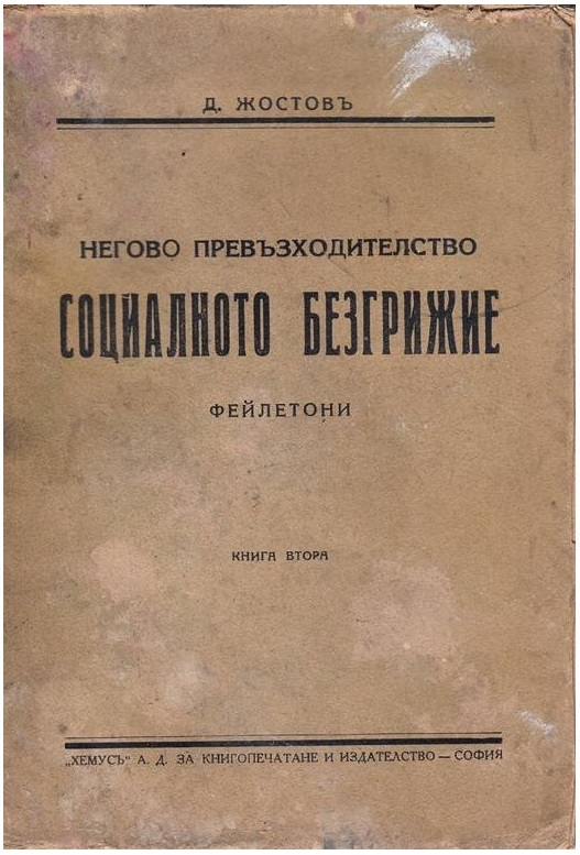 Negovo Prevazhoditelstvo Socialnoto Bezgrizhie